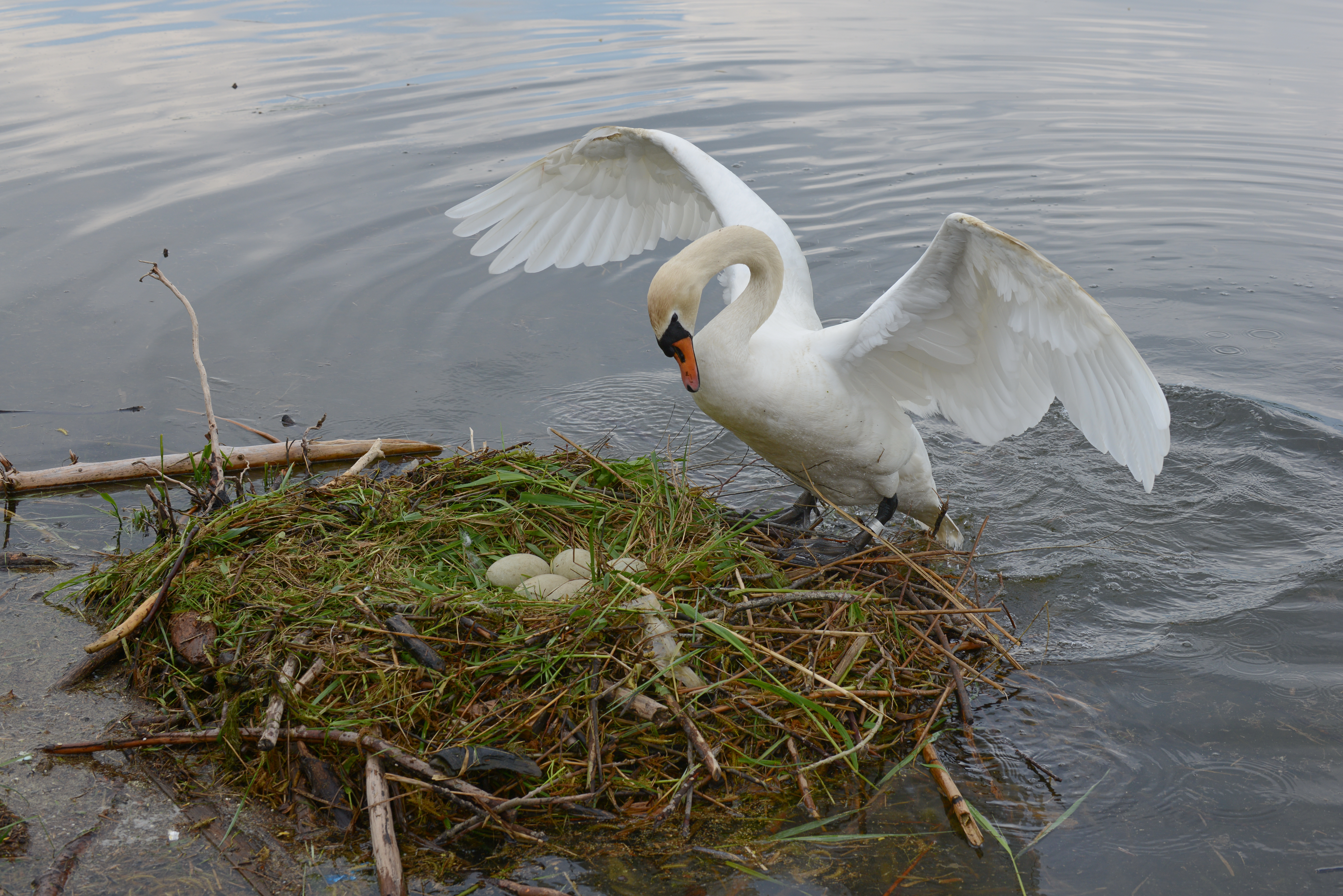 A Mute Swan (Cygnus olor) landing at its nest.